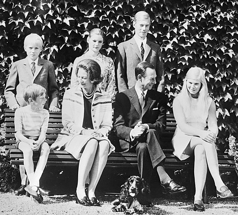 Cropped version of a Dutch photograph of the Grand Ducal couple (Jean and Princess Joséphine Charlotte of Belgium) with their children